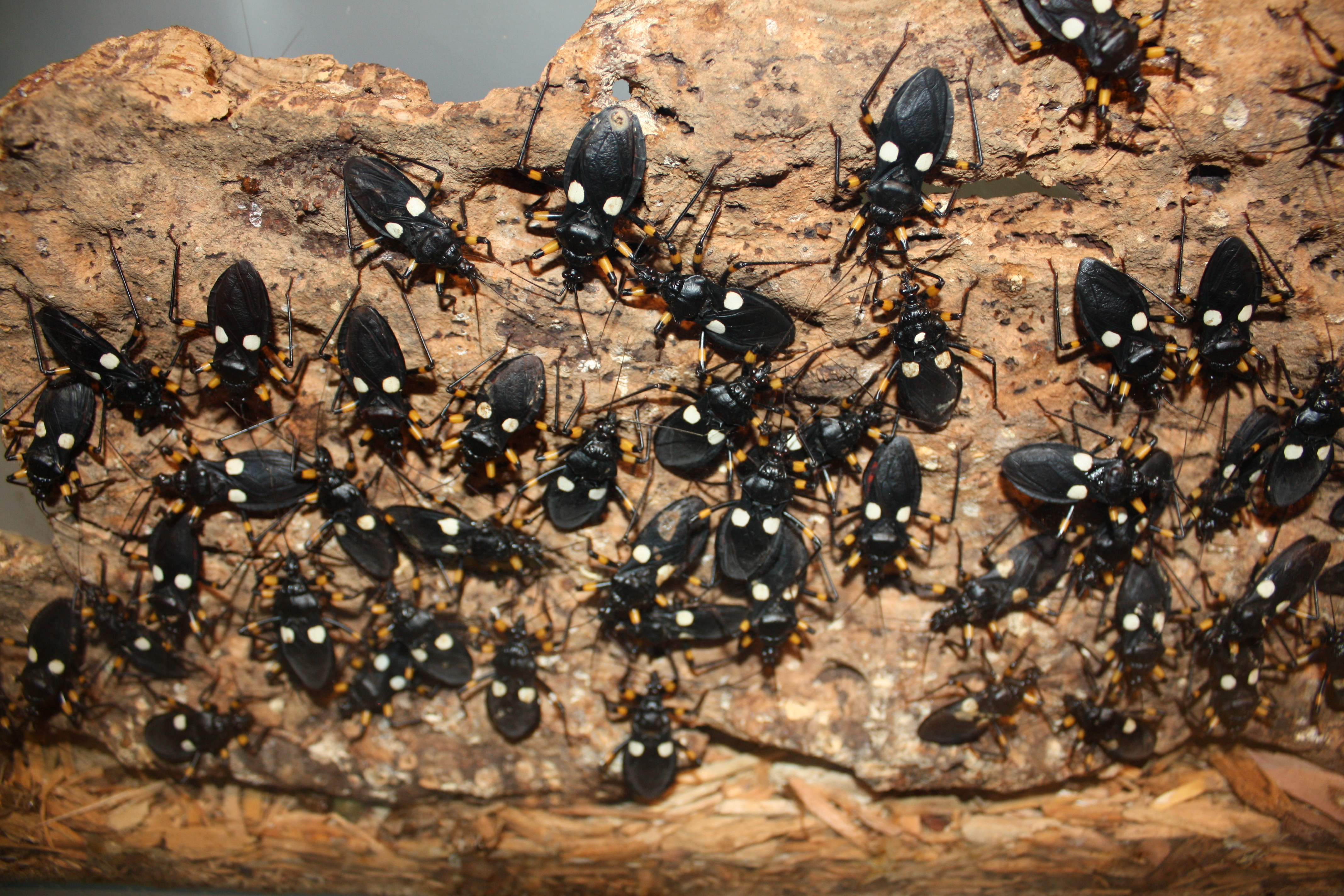 White-eyed Assassin Bug Platymeris biguttata at Cincinnati Zoo